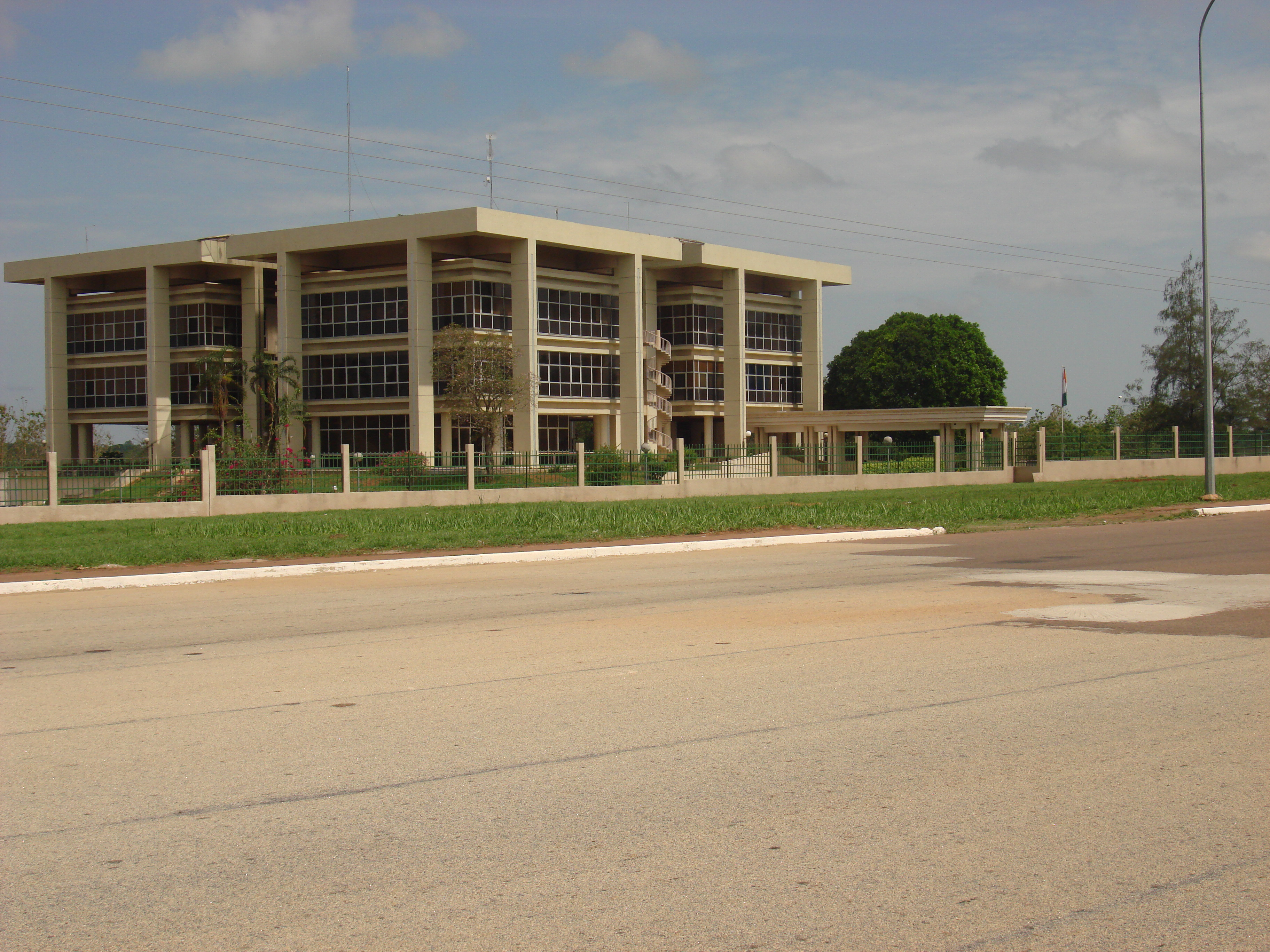 Department of Yamoussoukro, Yamoussoukro, Côte d'Ivoire.